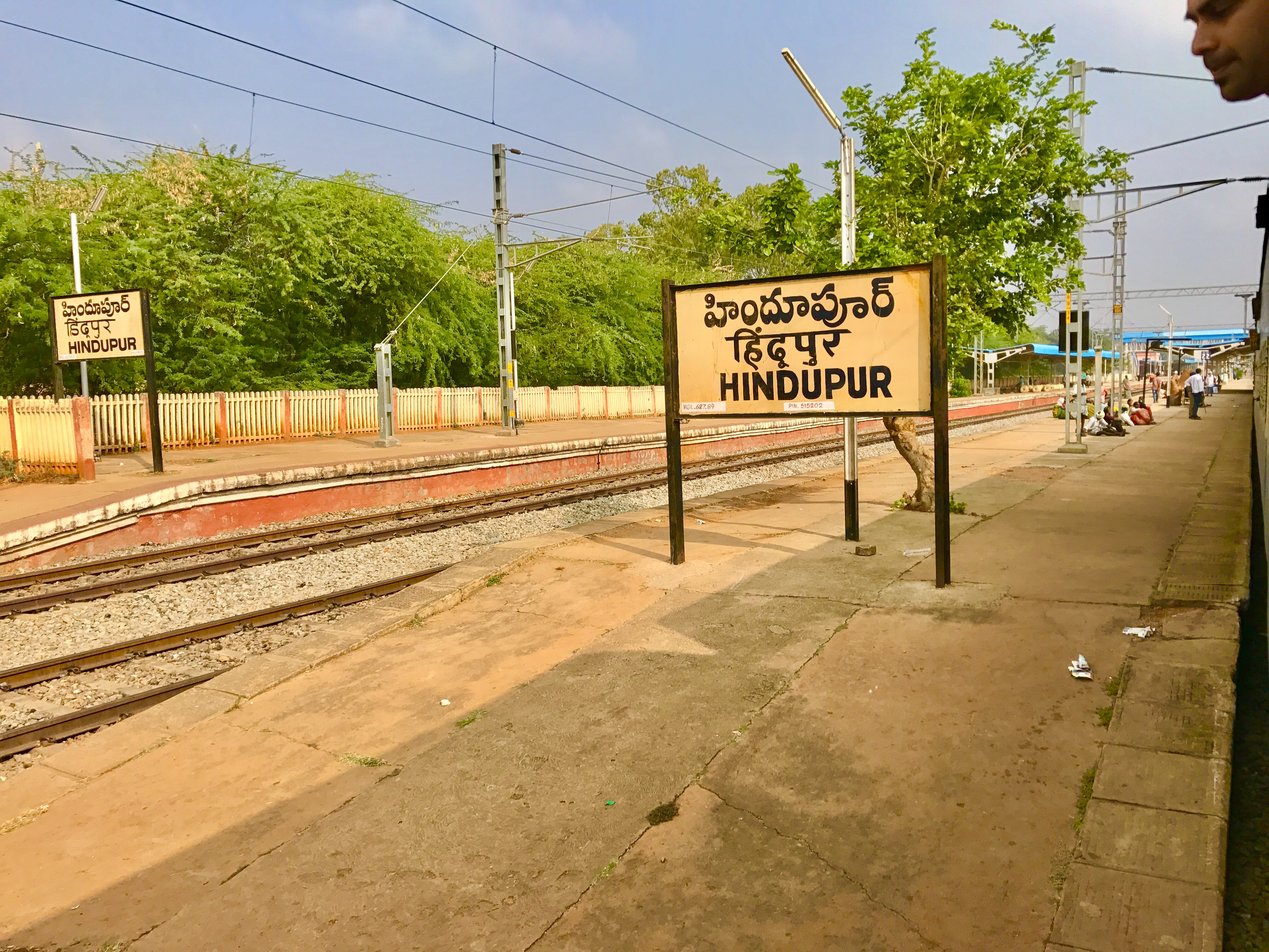 Board showing Hindpuru station name